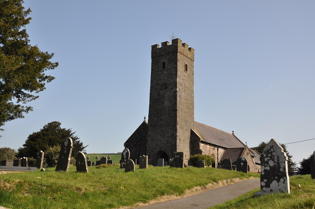 Llangyndeyrn Parish Church